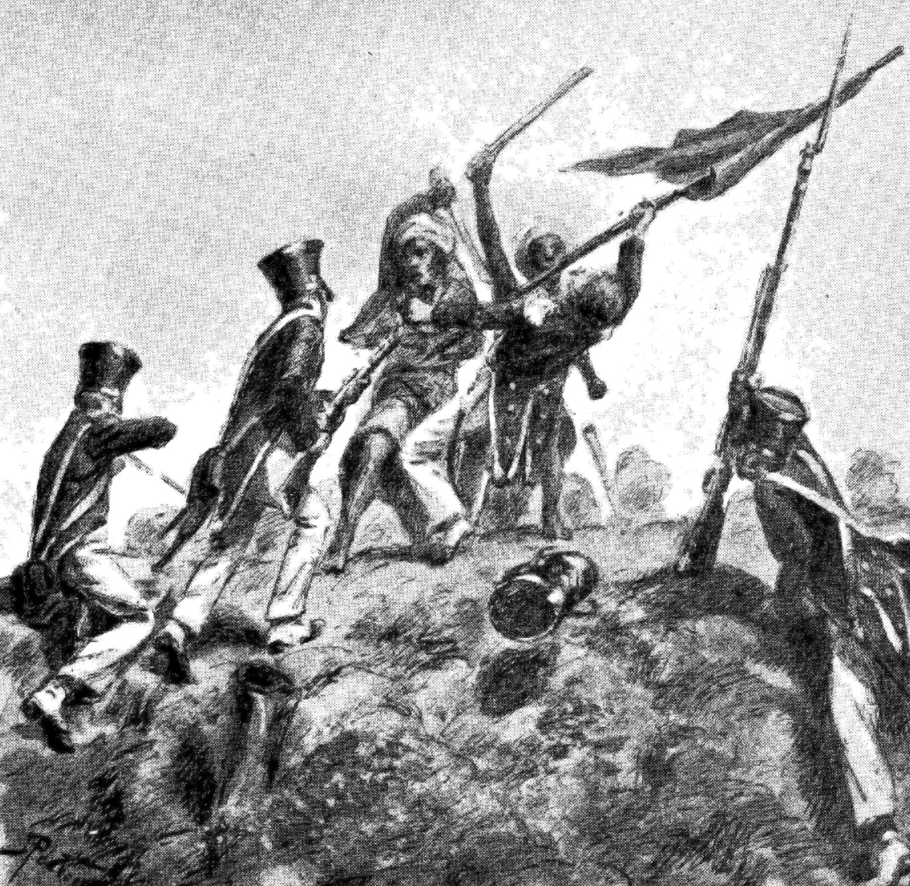 Heldhaftig gedrag van luitenant Bischoff